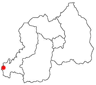 Cyangugu, Rwanda Location Map with 2006 provincial boundaries; created with the GIMP. Made by User:Acntx.